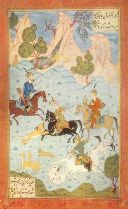 Iskender on a hunt. Nizami. “Hamsa”. MS SPL, PNS 66, f. 372. 1648. Bukhara